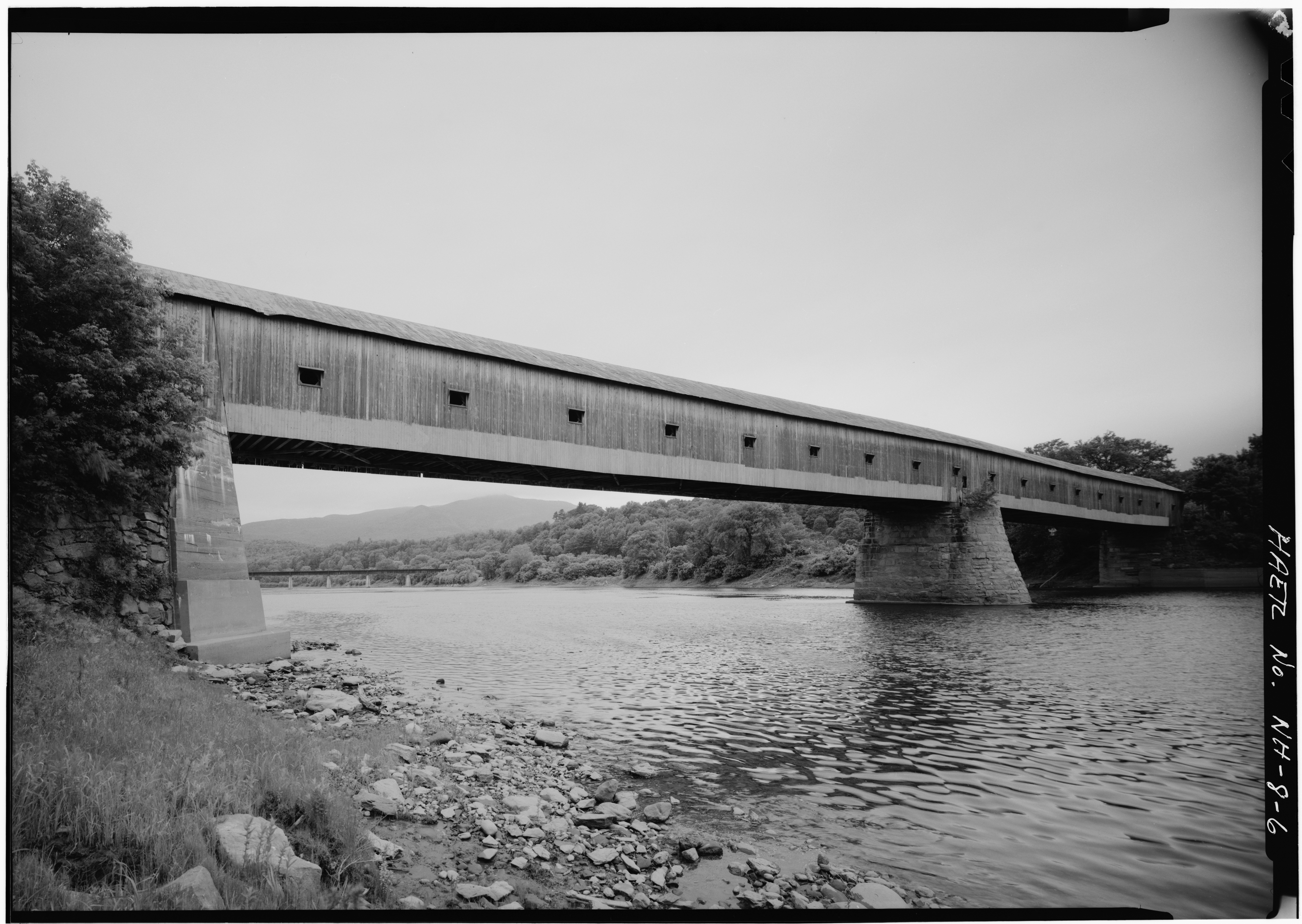 Cornish-Windsor Covered Bridge, spanning the Connecticut River between Windsor, Vermont, and Cornish, Sullivan County, New Hampshire, USA. The longest covered bridge in the U.S. Built 1866. This image is part of the Historic American Engineering Record (HAER), created by the Library of Congress, and hence is in the public domain. Survey number: HAER NH-8. Jet Lowe, photographer, 1984.